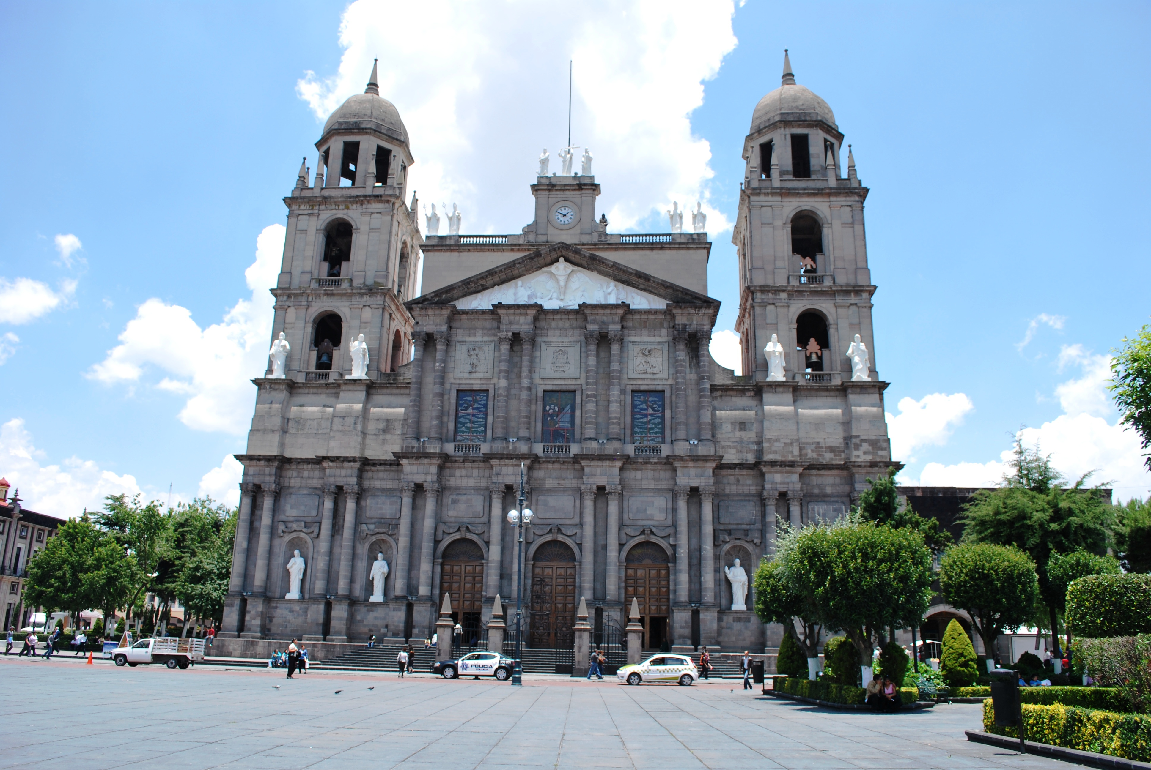 Cathedral of Toluca viewed from the Plaza de los Martires in Toluca Mexico State